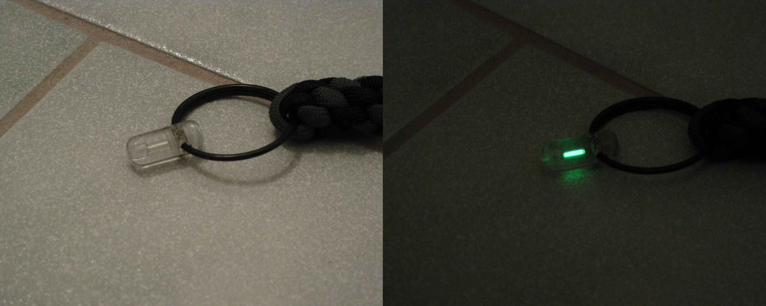 A tritium light keyring.